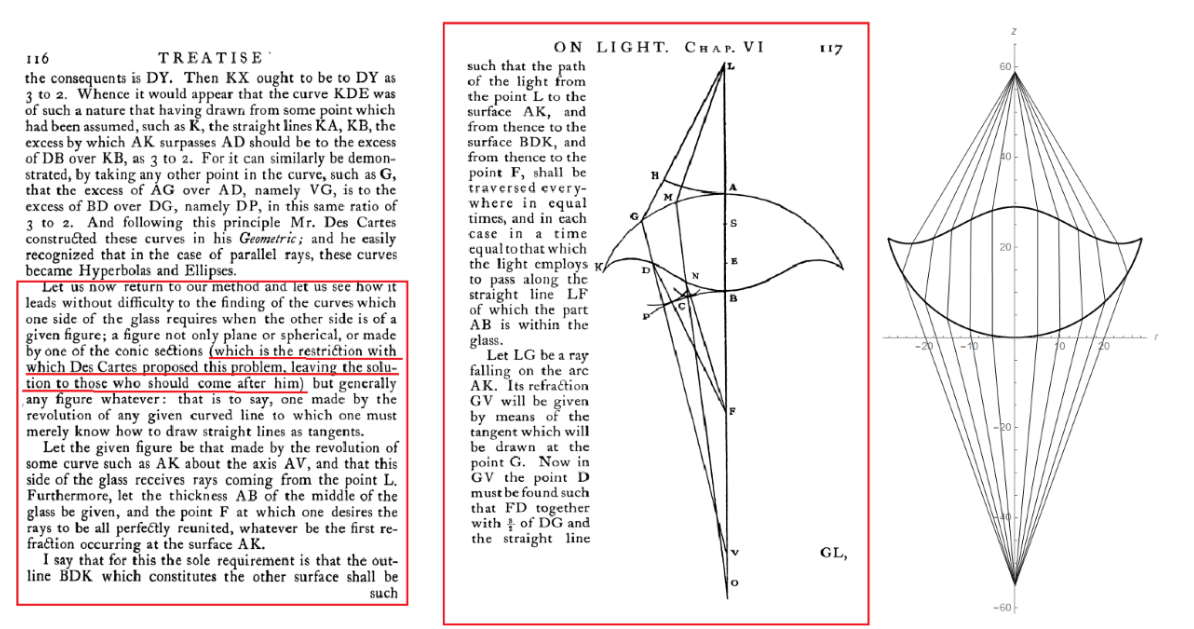 Comparisons between the Huygens lens and Acuña-Romo lens